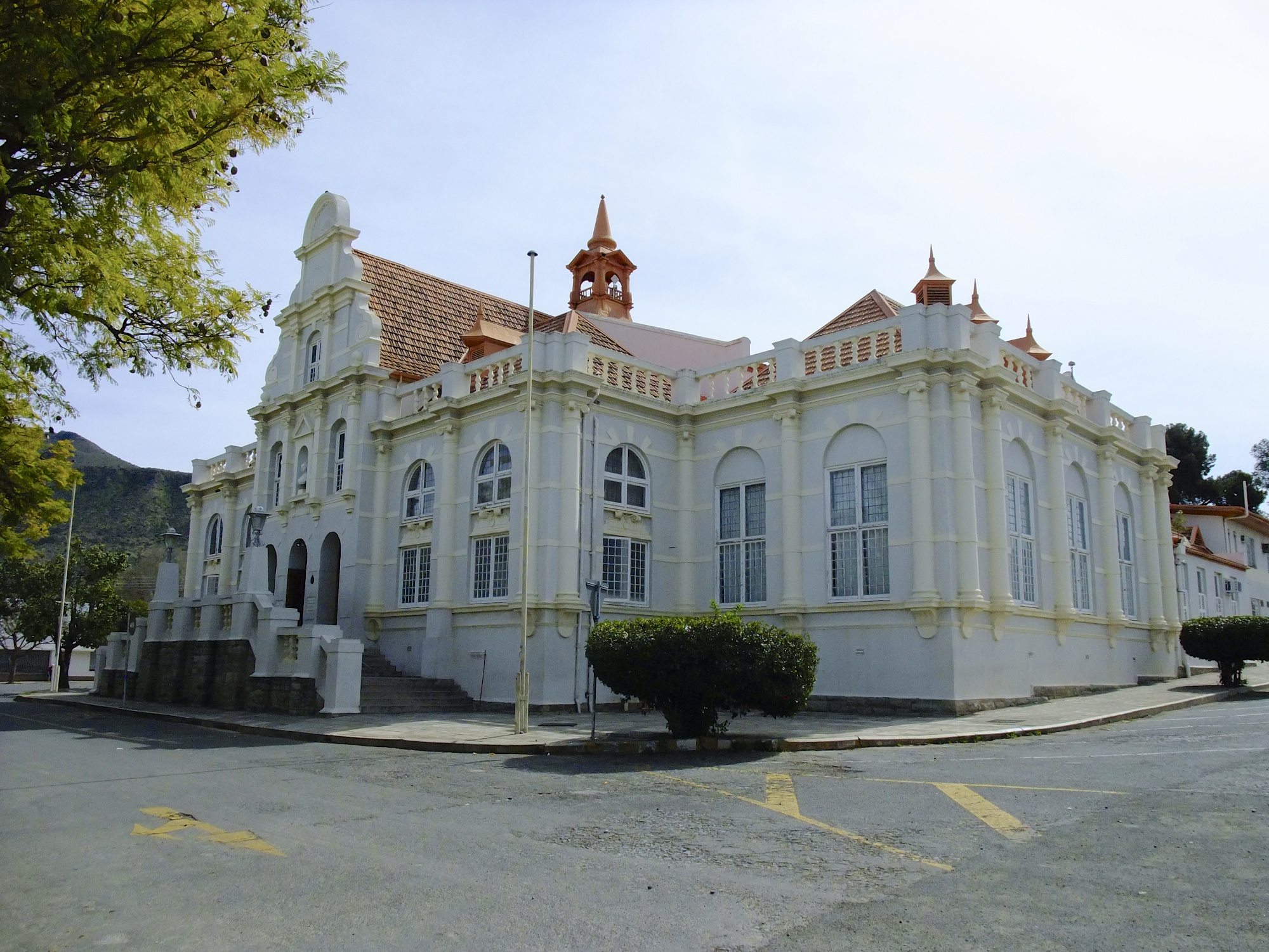 Town Hall in Graaff Reinet This media shows a South African Protected Site with SAHRA file reference 9/2/033/0023.